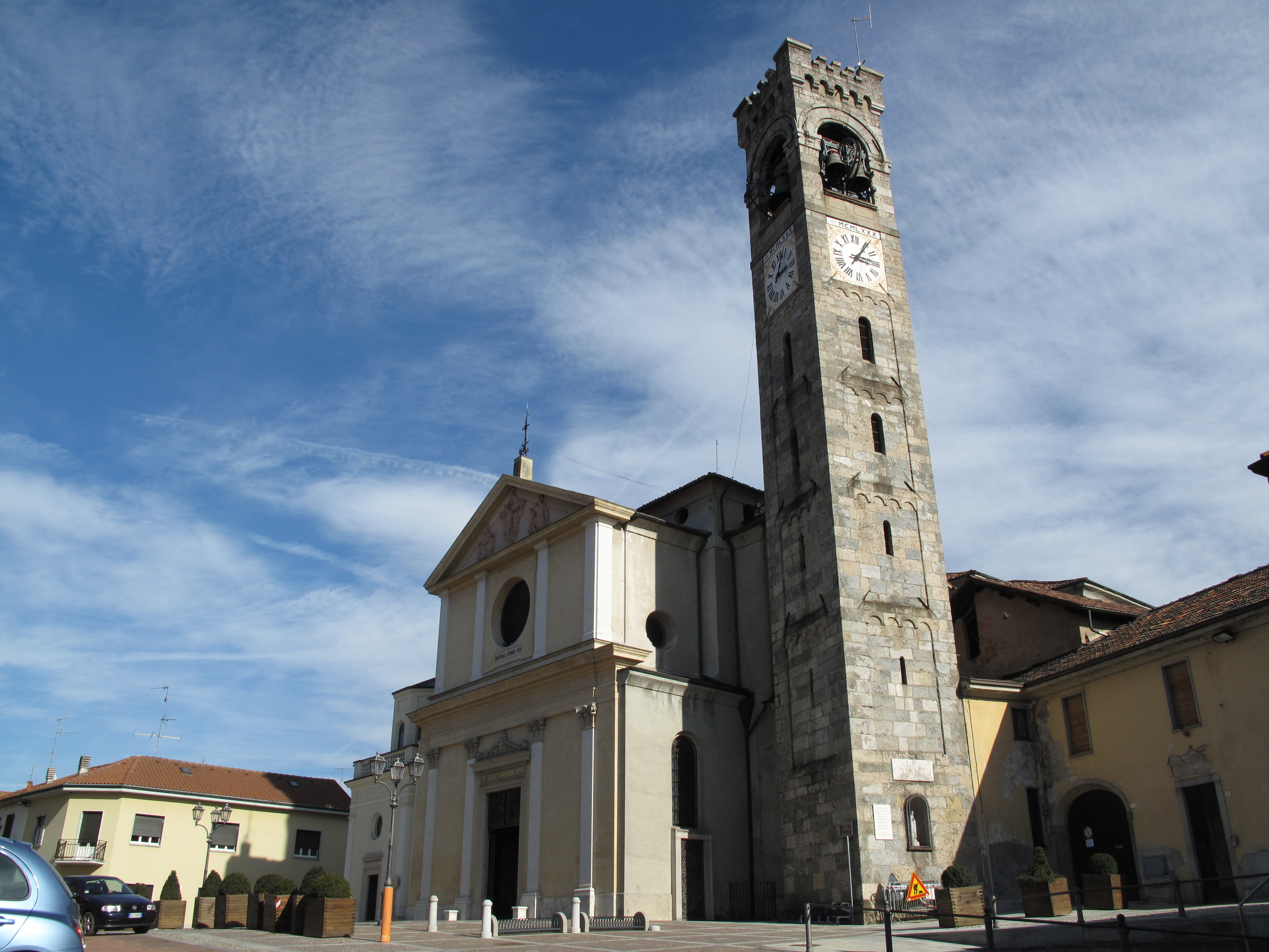 Church of Albiate (Monza e Brianza).